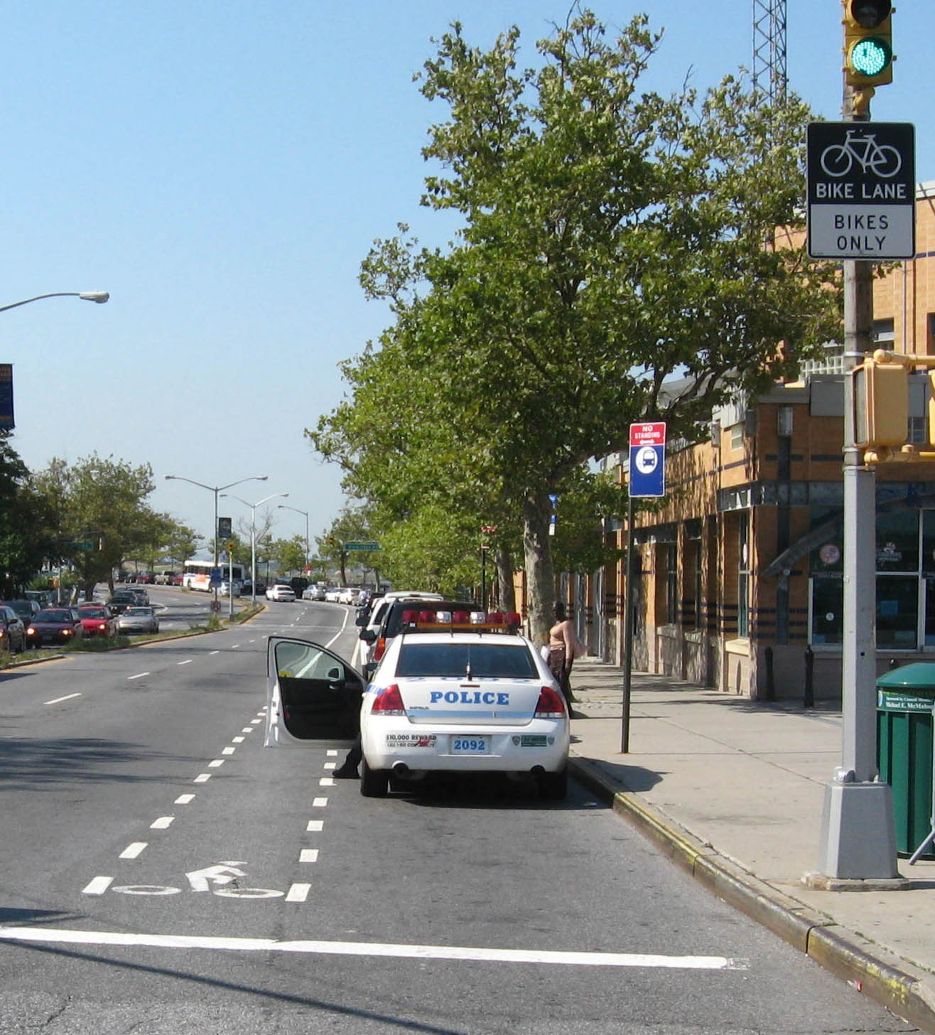 Looking north on a sunny afternoon along the bike lane at the beginning of Richmond Terrace alongside Yankee Stadium in Saint George, Staten Island as a car door remains open